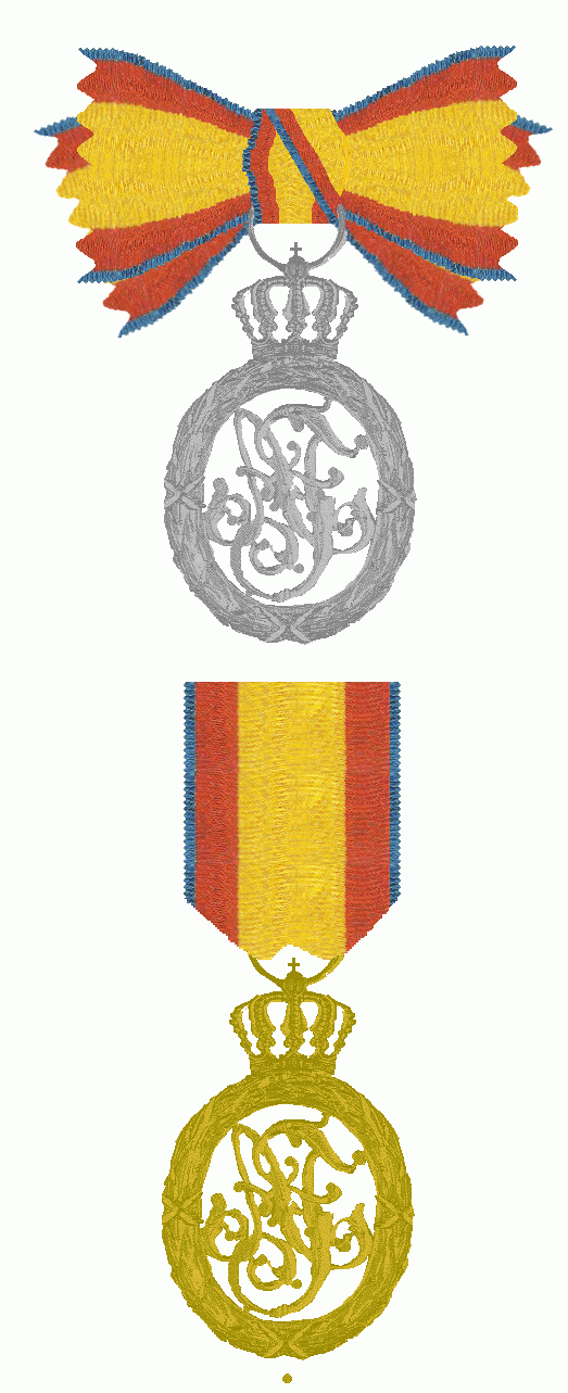 Order for Art and Sceince